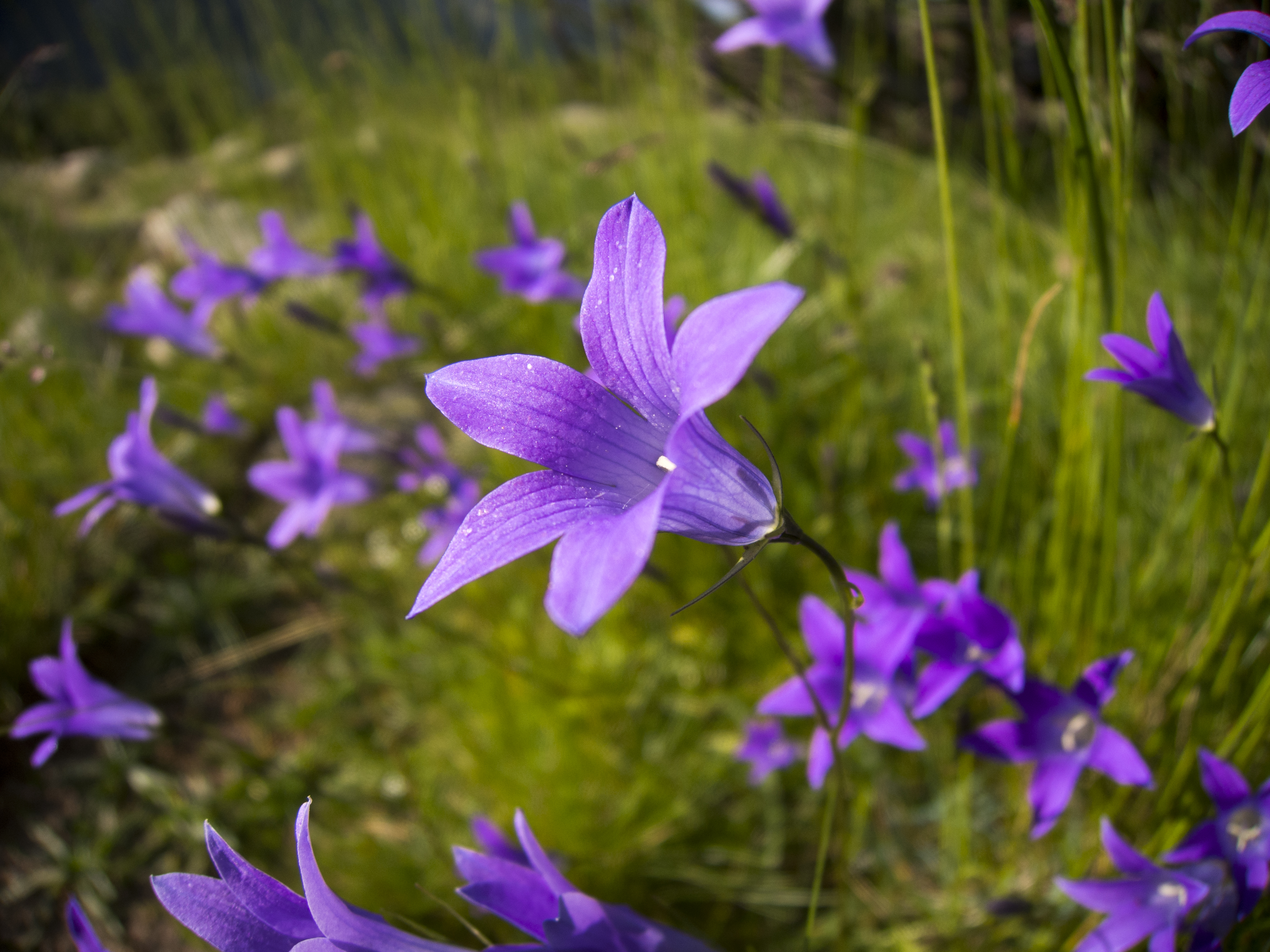 Campanula orphanidea near Vihren hut